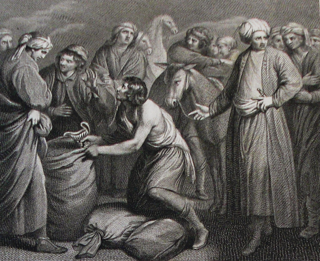 A print from the Phillip Medhurst Collection of Bible illustrations in the possession of Revd. Philip De Vere at St. George’s Court, Kidderminster, England.